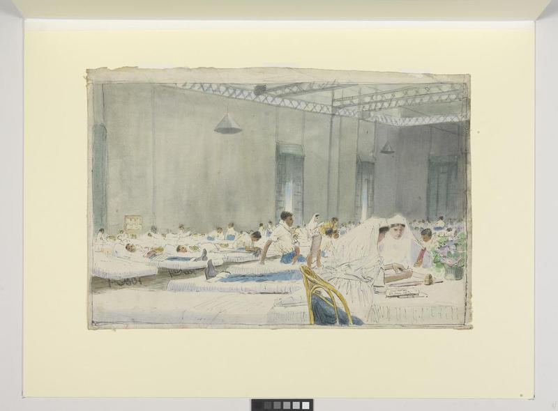 A Hospital Ward - a dysentery ward of the General Hospital at Port Said image: a view of the interior of a large hospital ward crowded with many white-linened beds, most occupied by recuperating soldiers. Two female nurses are seated at a table in the right foreground, with the foremost nurse writing on a sheet of paper. The soldiers are all dressed in white shirts and blue trousers.